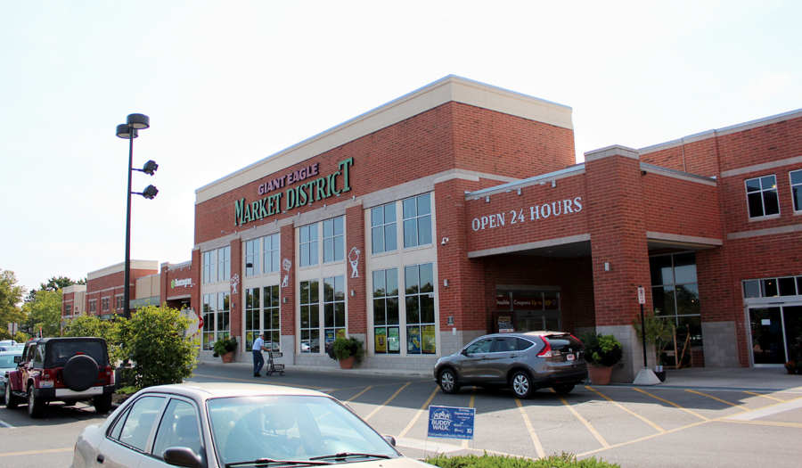 Giant Eagle Market District at the Kingsdale Shopping Center in Upper Arlington, Ohio, in September 2013.